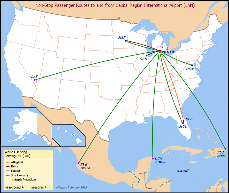 Capital Region International Airport (LAN), Lansing, Michigan, passenger airline route map - updated August 2012. A separate file from previous version per Commons:Overwriting existing files.